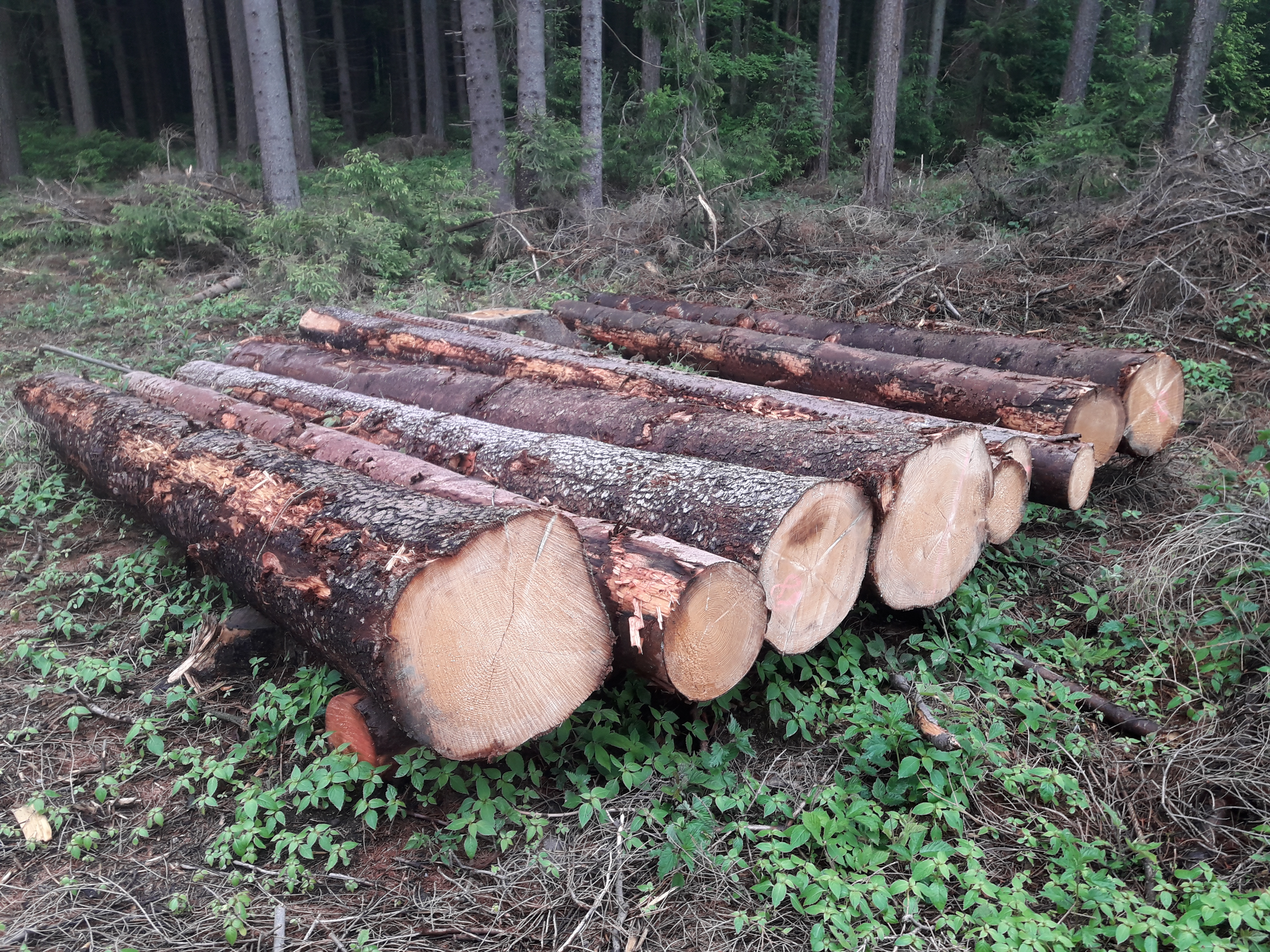 bark beetle trap (Ips typographus)